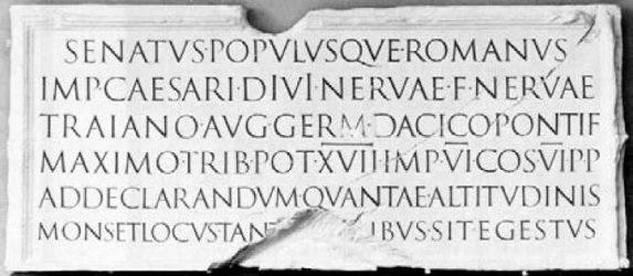 Base trajan column.